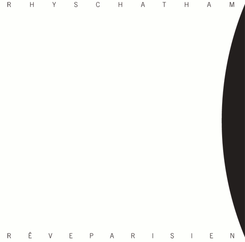 Cover art of Rhys Chatham's 2011 album “Rêve Parisien”.